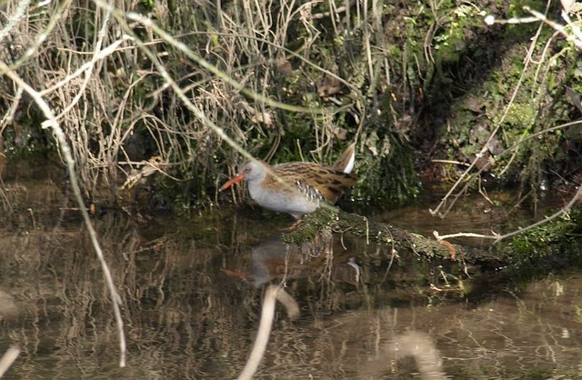 Water rail, Hackney Marshes I managed to let slip the best opportunity for photographing this water rail (Rallus aquaticus) which is creeping along the edge of the watercourse that takes the Fairwater Leat down to the Teign.